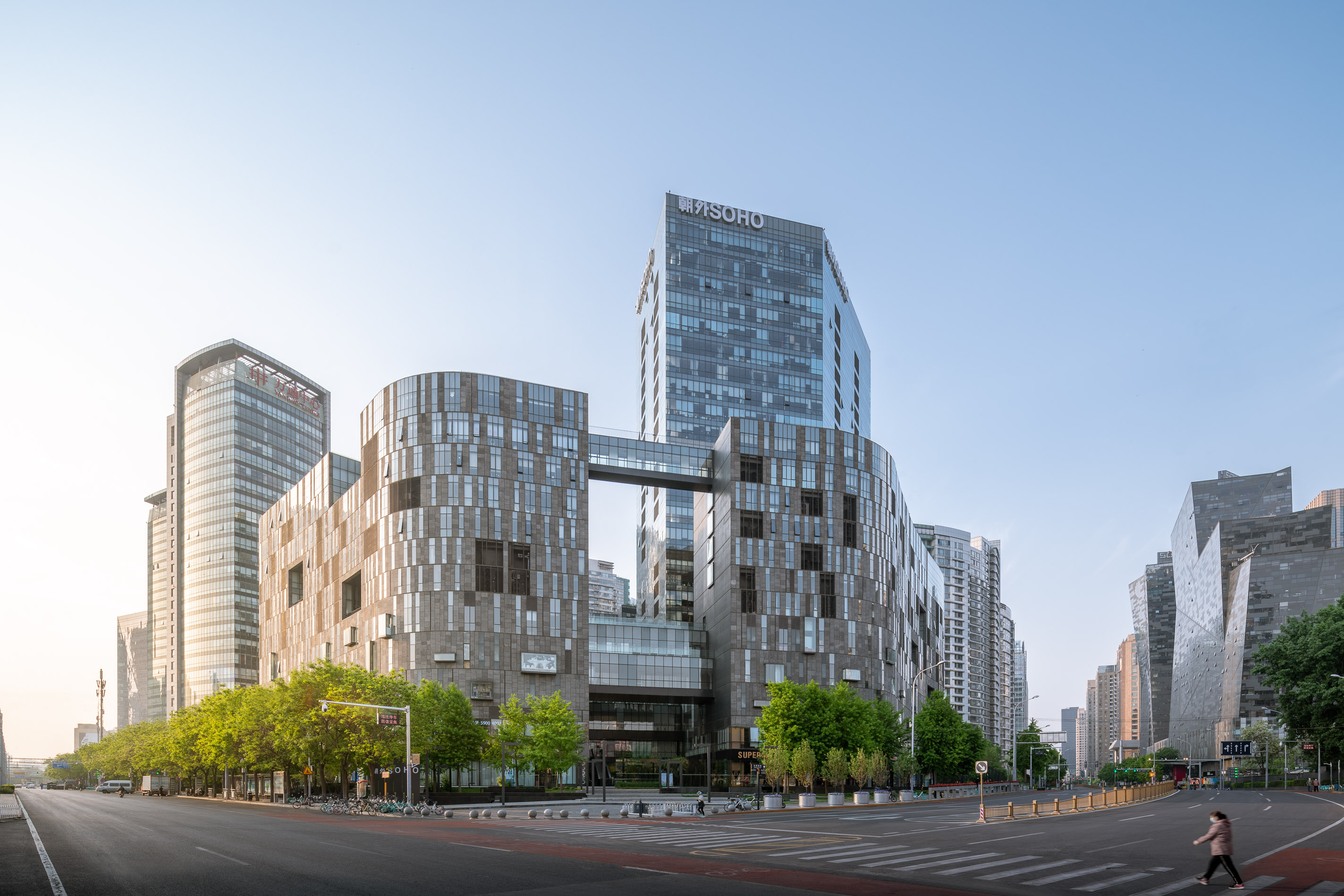 Chaowai SOHO, which has the head office of SOHO China